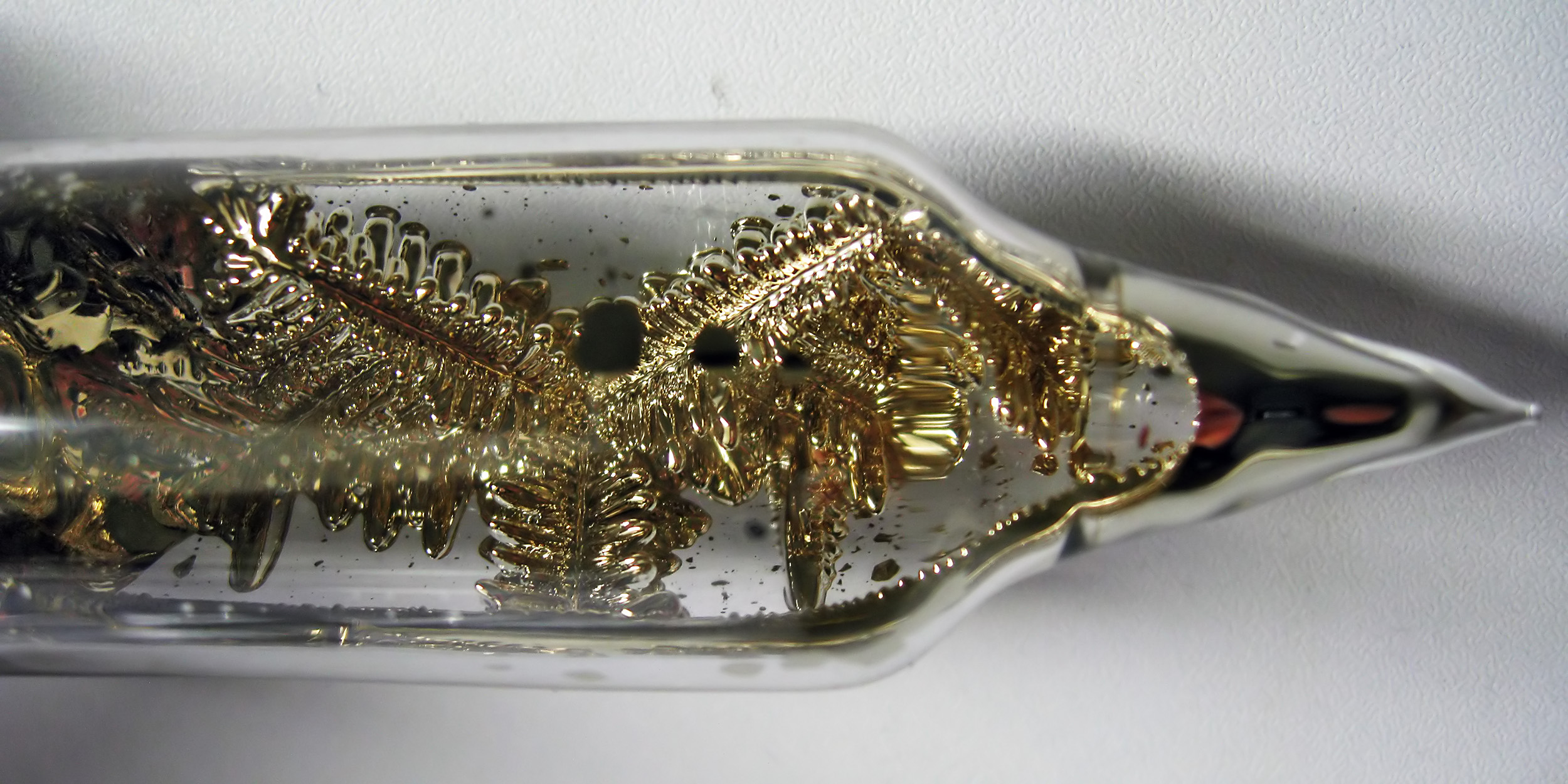 My favorite sample ; High pure cesium crystals. (From the Dennis s.k collection.)